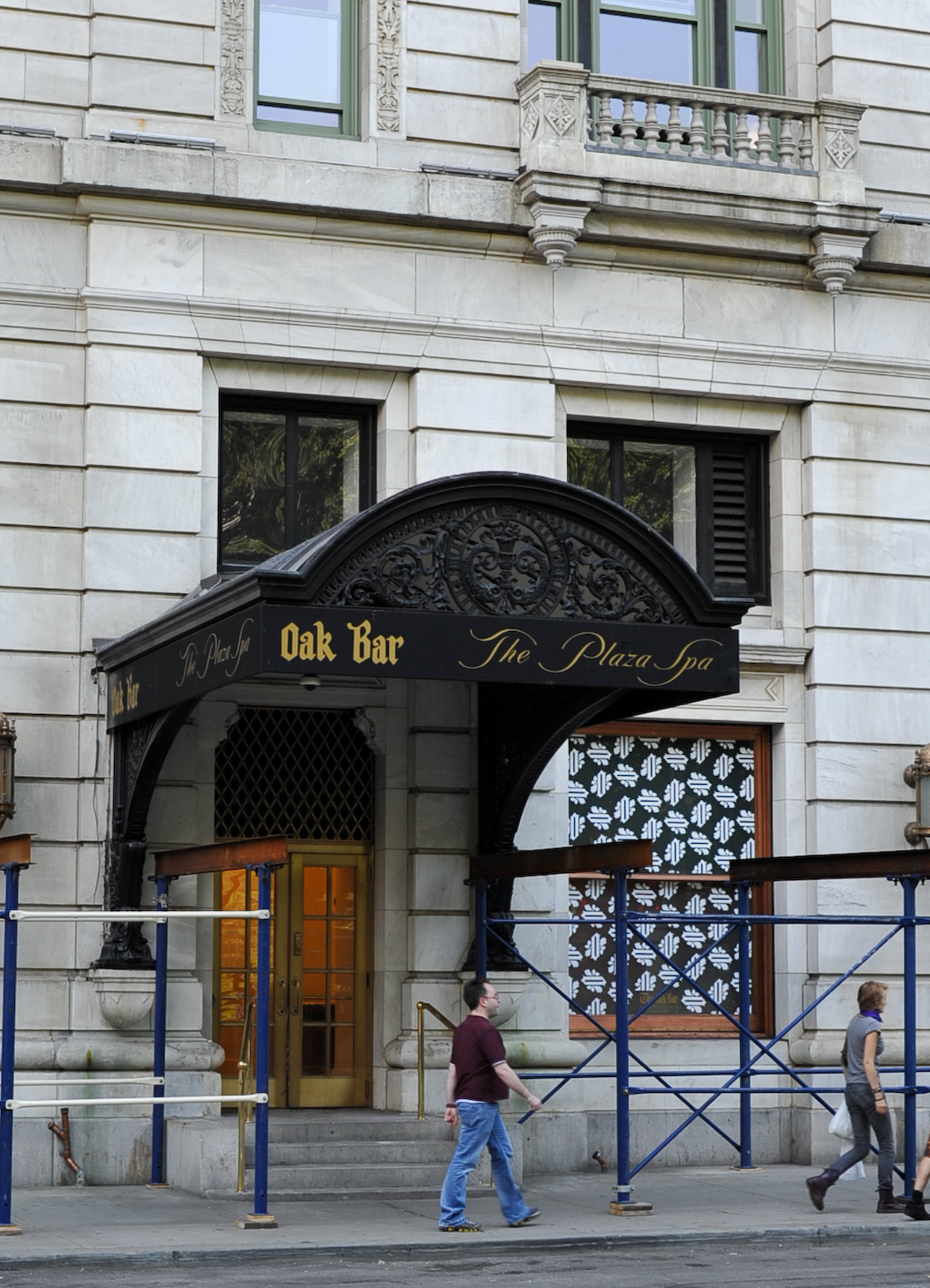 Sights, sounds, and perhaps not the smells of NYC.